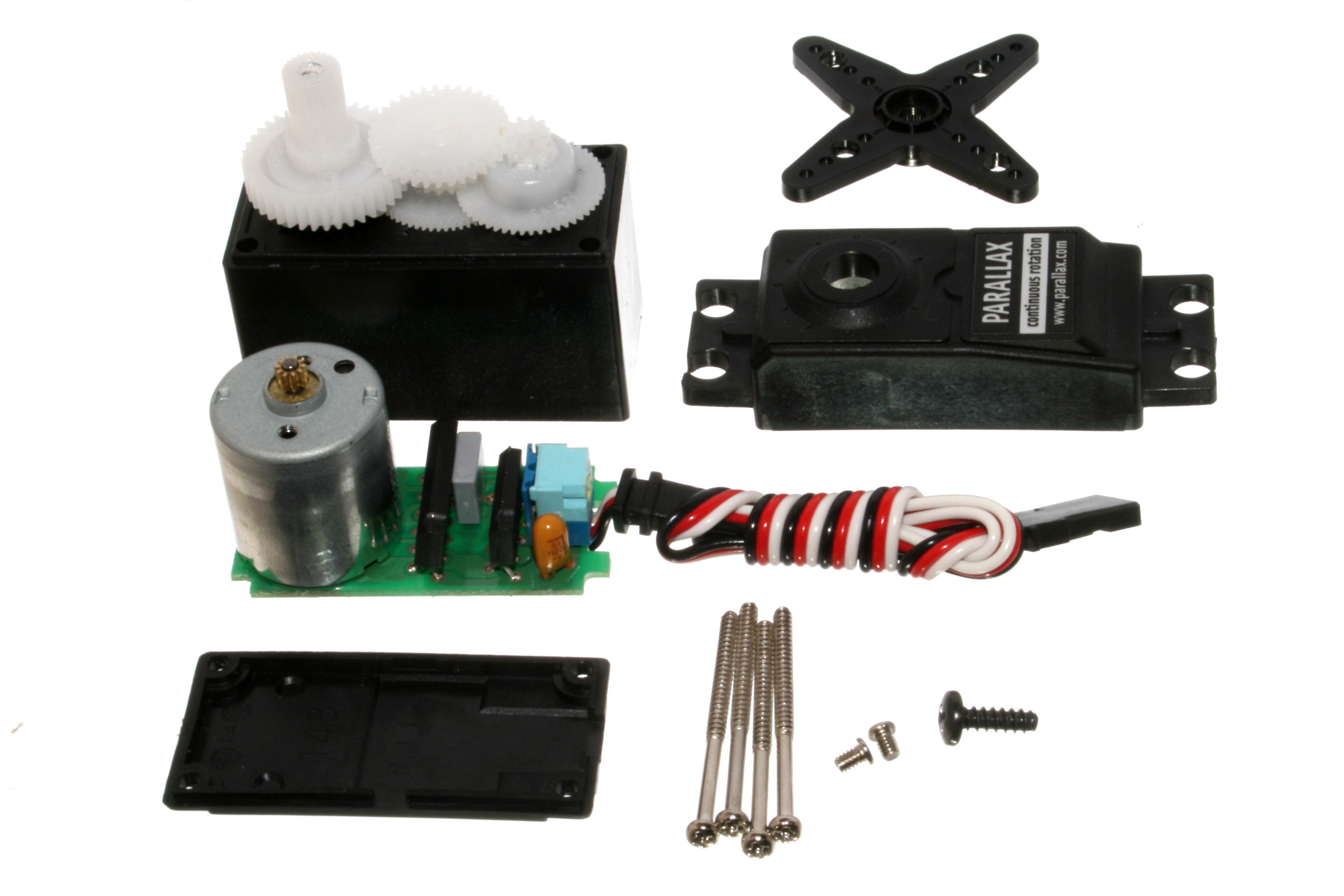 Exploded Servo.